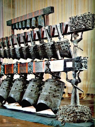 Bells on lacquered stand. From Marquis Yi tomb 256 BC